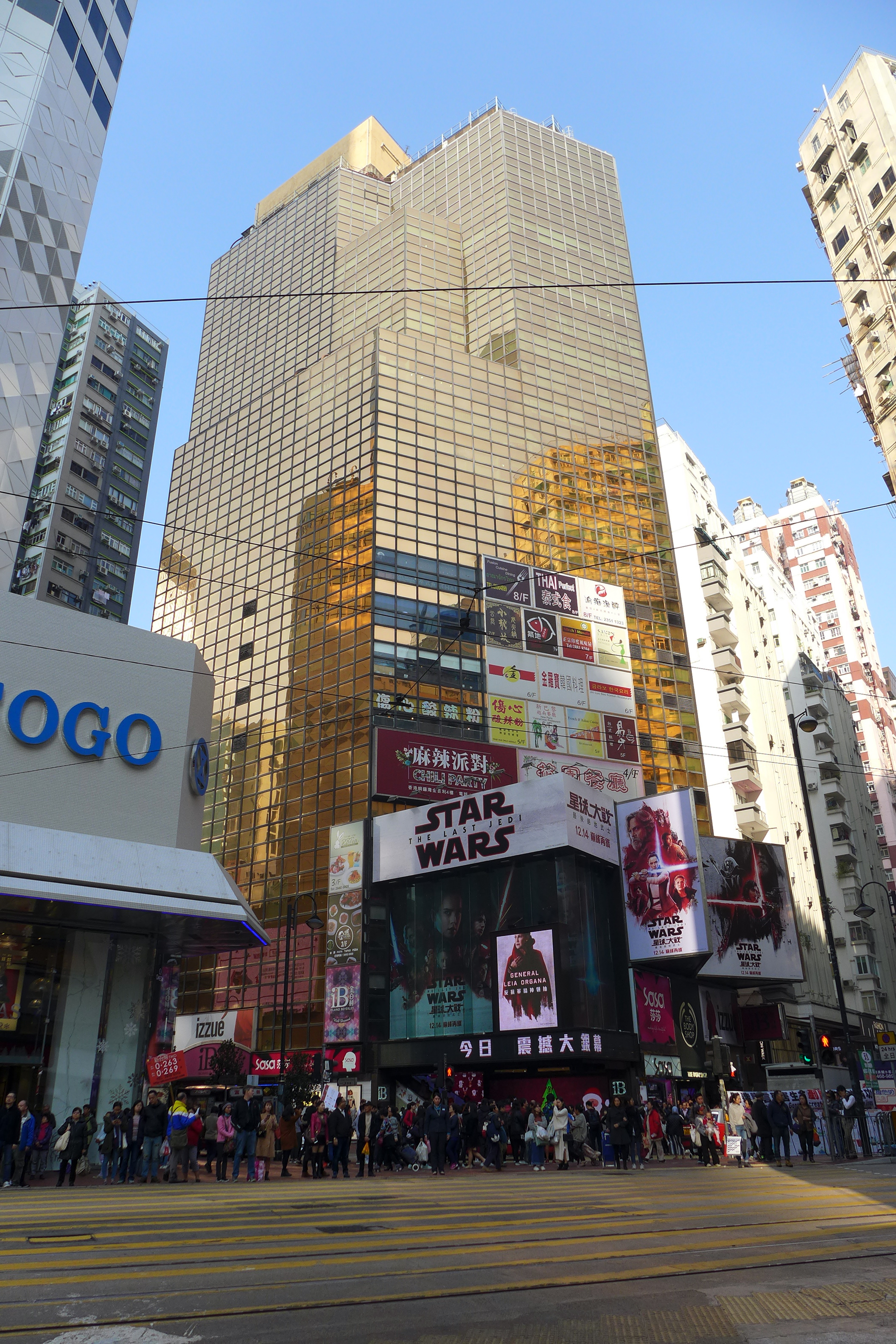 Island Centre